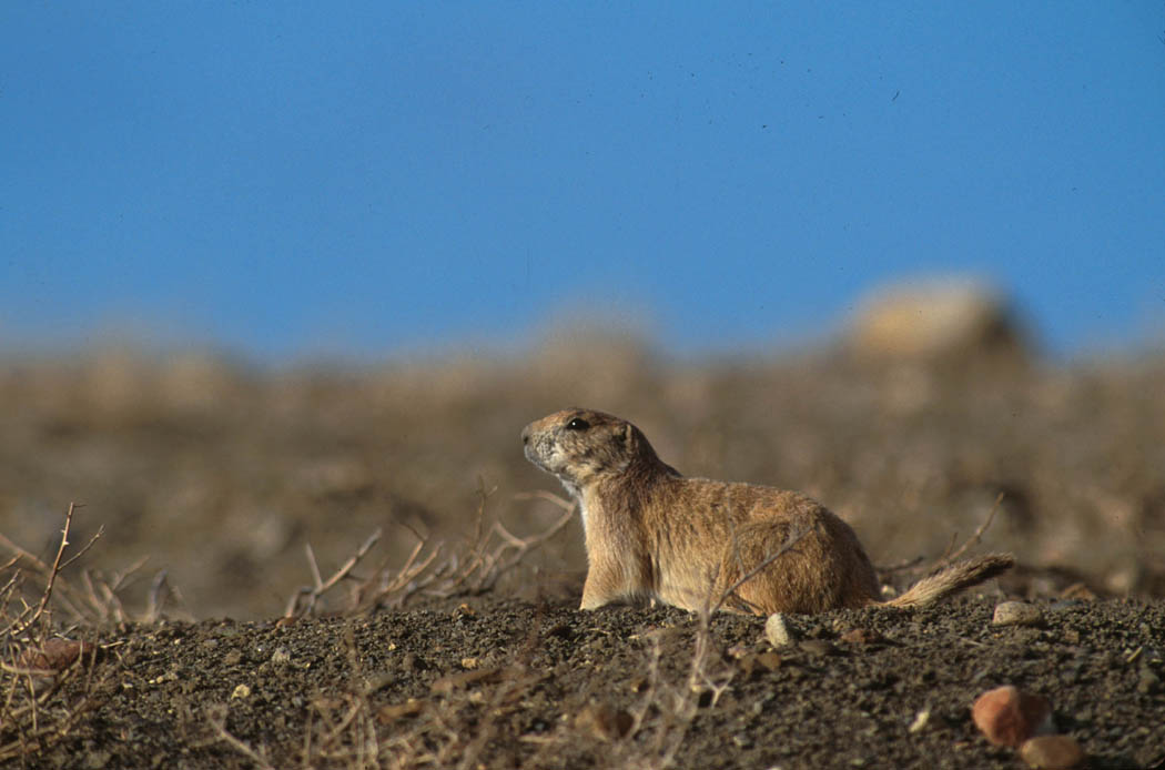 Black-tailed Prairie-Dog (Cynomys ludovicianus)